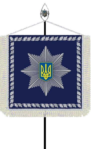 Standard of the Head of Ukrainian National Police